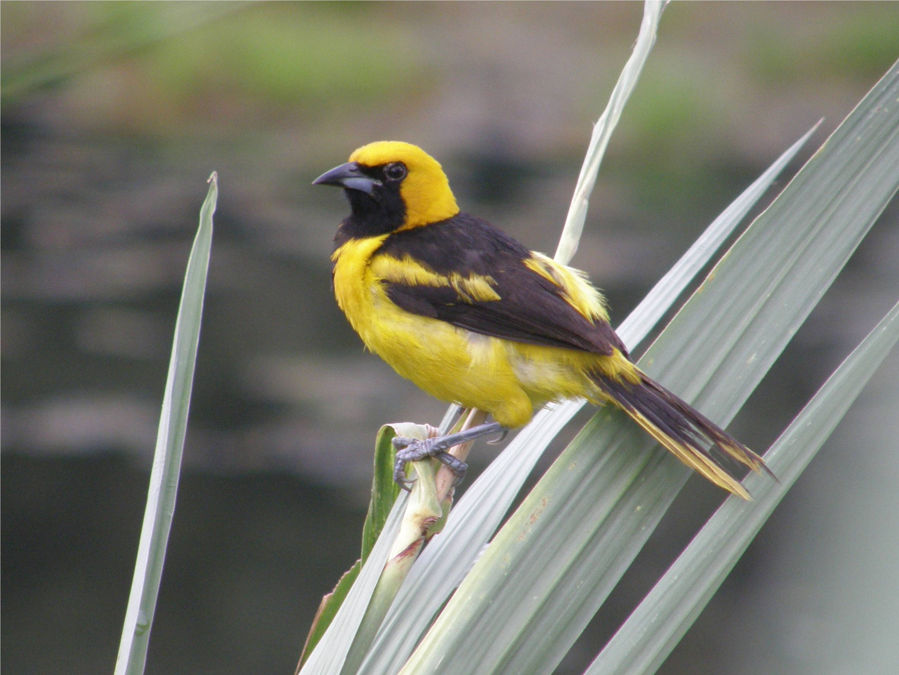 Yellow-tailed Oriole, Icterus mesomelas Original description: This male posed for me at about 2 meters. Maybe it felt safe because I would have fallen 10 feet or so into a crocodile infested swamp if I'd gotten any closer...